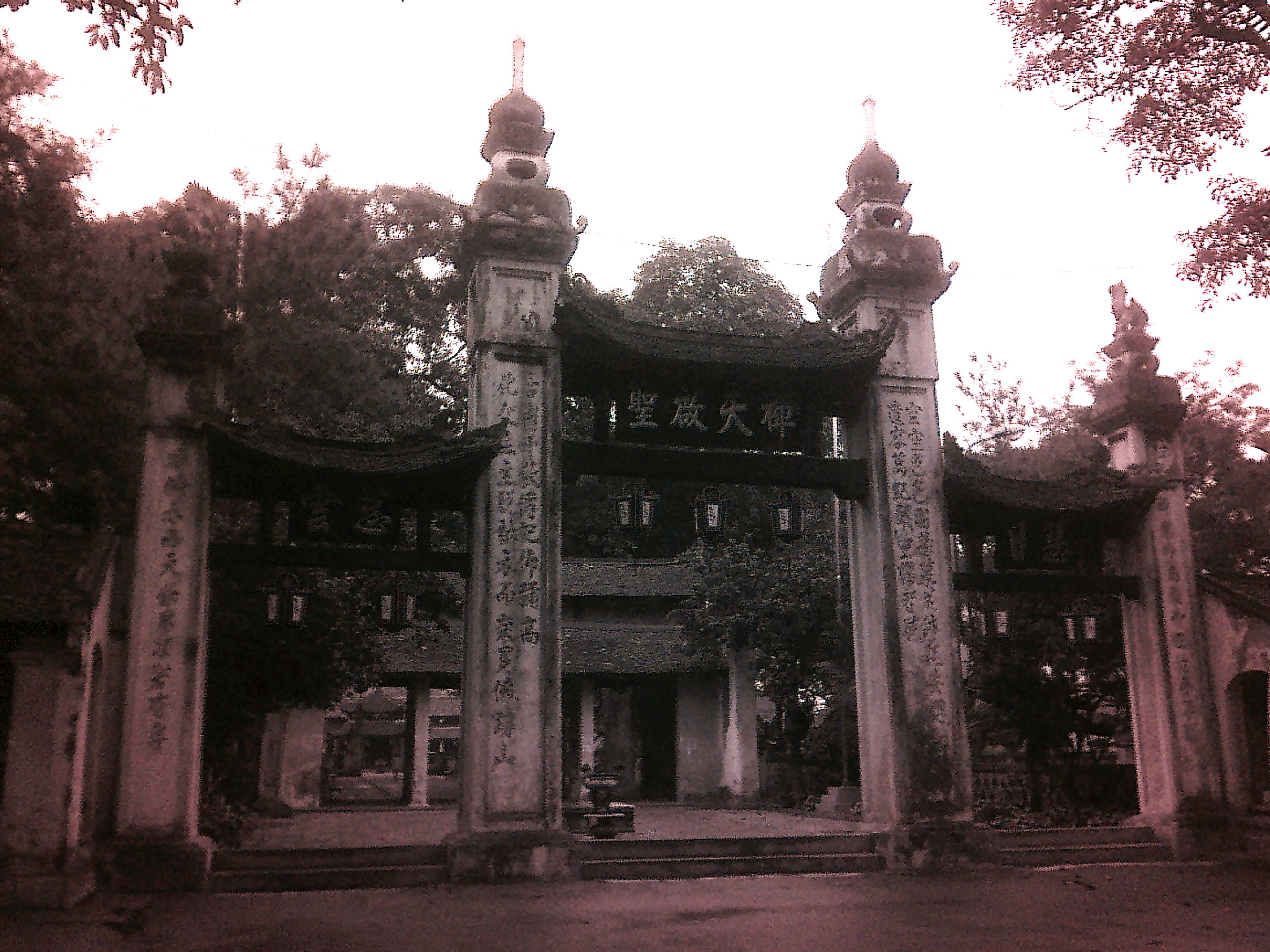 The gate of Láng Pagoda, Hà Nội, Việt Nam